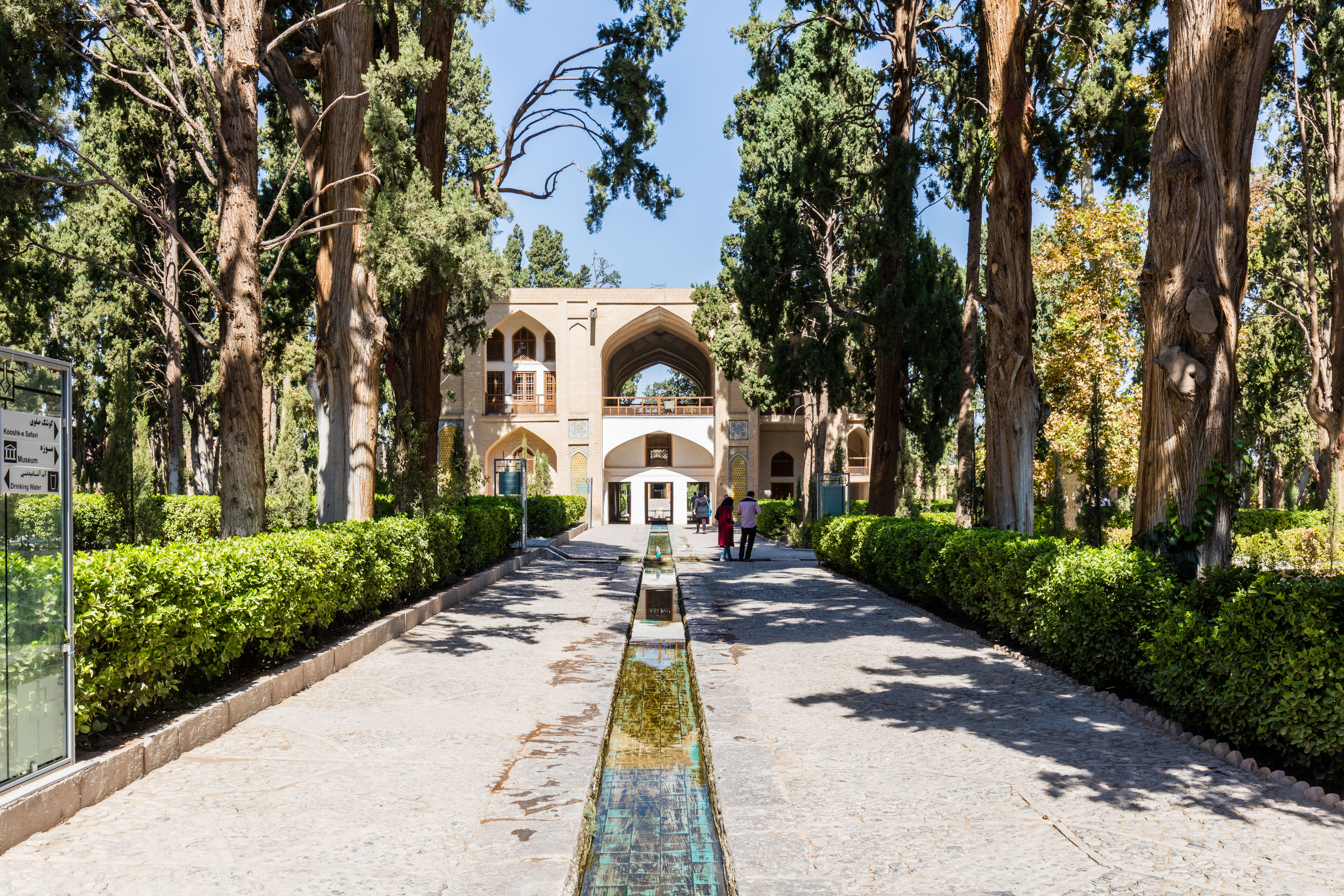 Fin Garden, Kashan, Iran